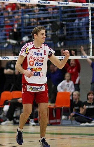 Finland volleyball setter Joni Markkula celebrating season 2008